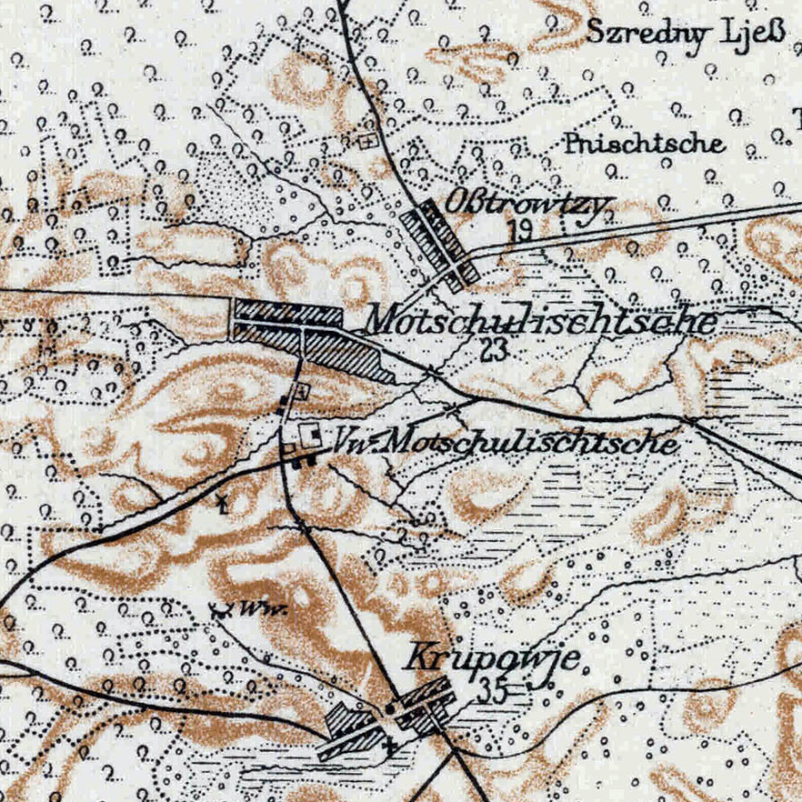 Krupove on the map "Karte des Westlichen Russlands", T 35, 1917. According to Digital Repository of Scientific Institutes and Kujawsko-Pomorska Digital Library the map is in the public domain.